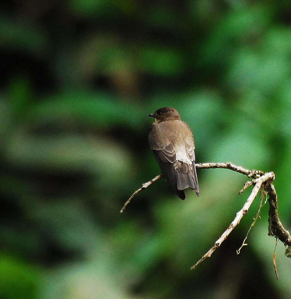 Southern Rough-winged Swallow along the Sarapiqui River south of Puerto Viejo, Costa Rica, 080225. Stelgidpteryx ruficollis.